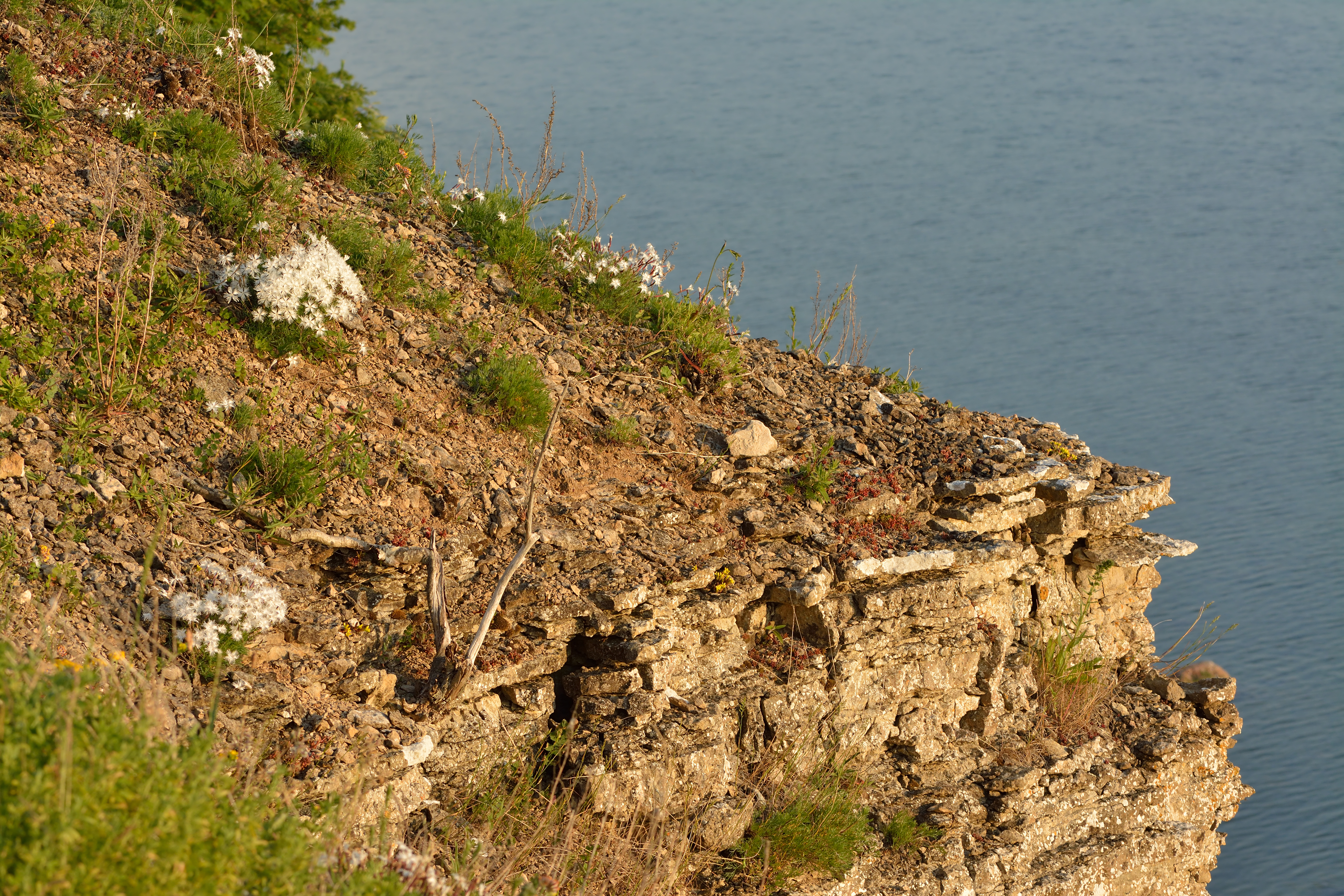 A rare and localised subspecies of sand pink (Dianthus arenarius ssp. arenarius), natural habitat on Pakri cliff, Northwestern Estonia. It belongs in Estonia to the category II of protected species. European Topic Centre on Biological Diversity conservation status: annex II and IV.